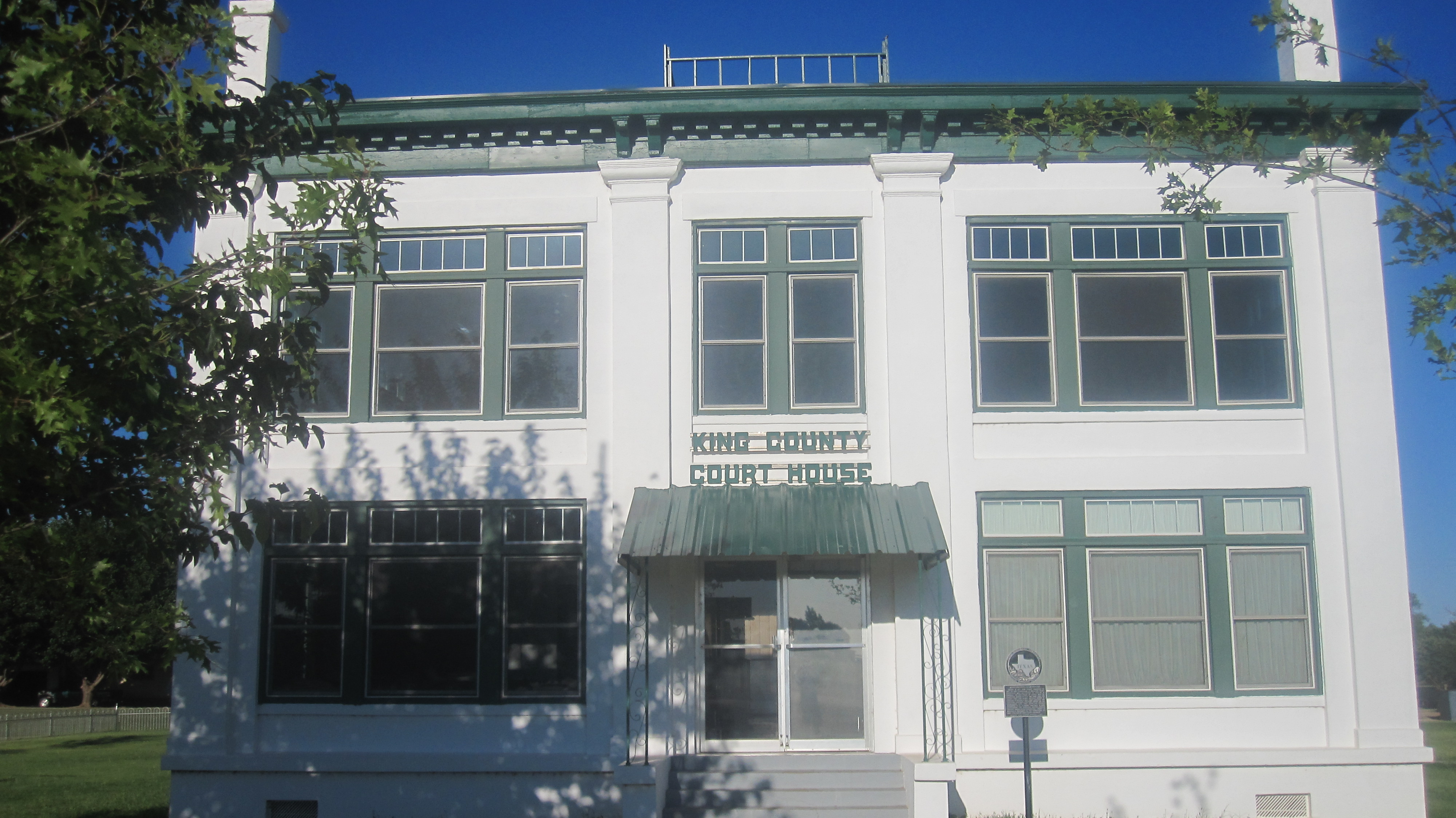 King County Courthouse. I took photo in King County, TX, with Canon camera.